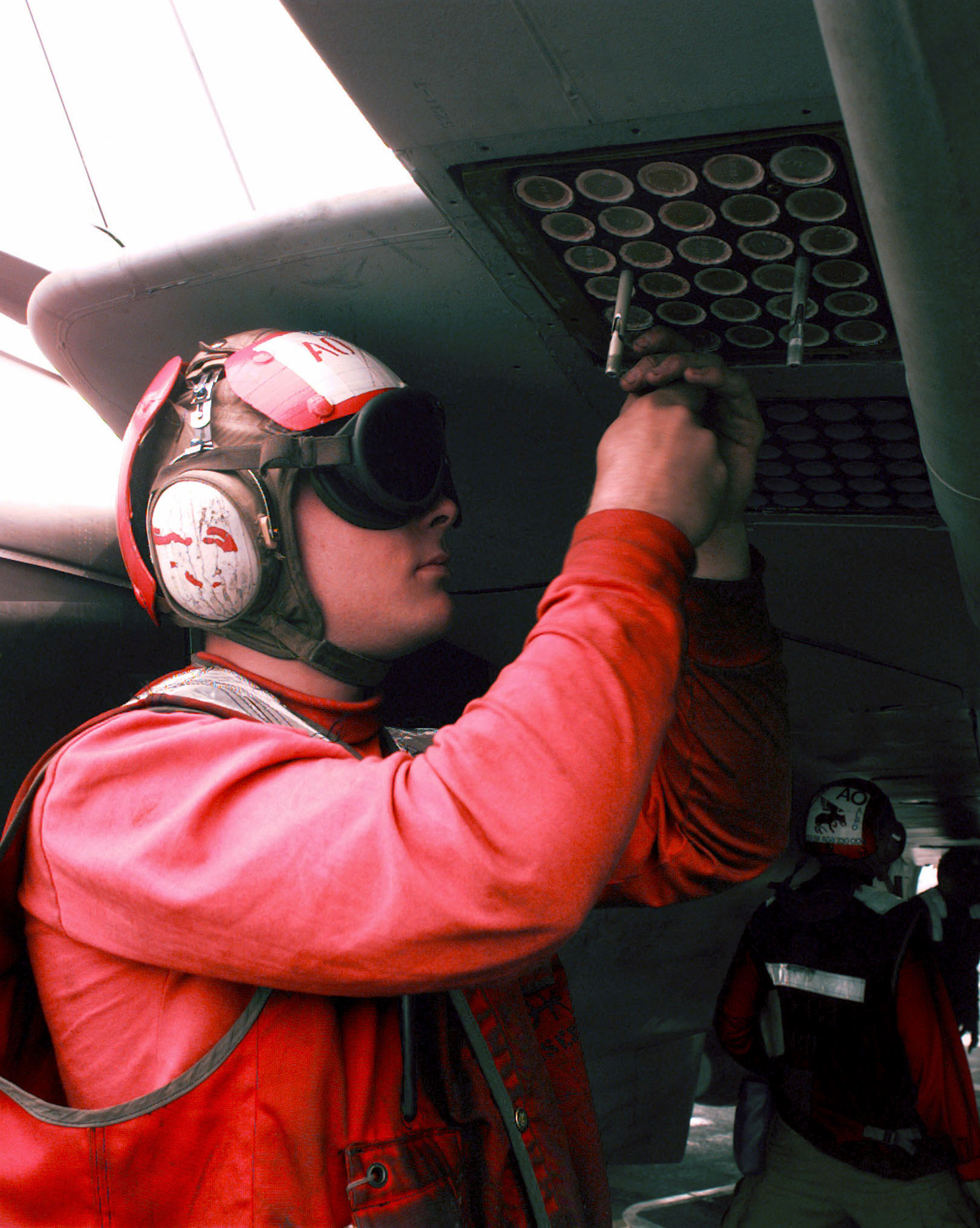 Onboard the Nimitz Class Aircraft Carrier, USS JOHN C. STENNIS (CVN-74), Aviation Ordnanceman Nick Jensen from VF-143, loads decoy flares on a US Navy F-14 Tomcat aircraft prior to flight operations. The USS JOHN C. STENNIS is deployed in the Persian Gulf in support of the Southwest Asia build-up.